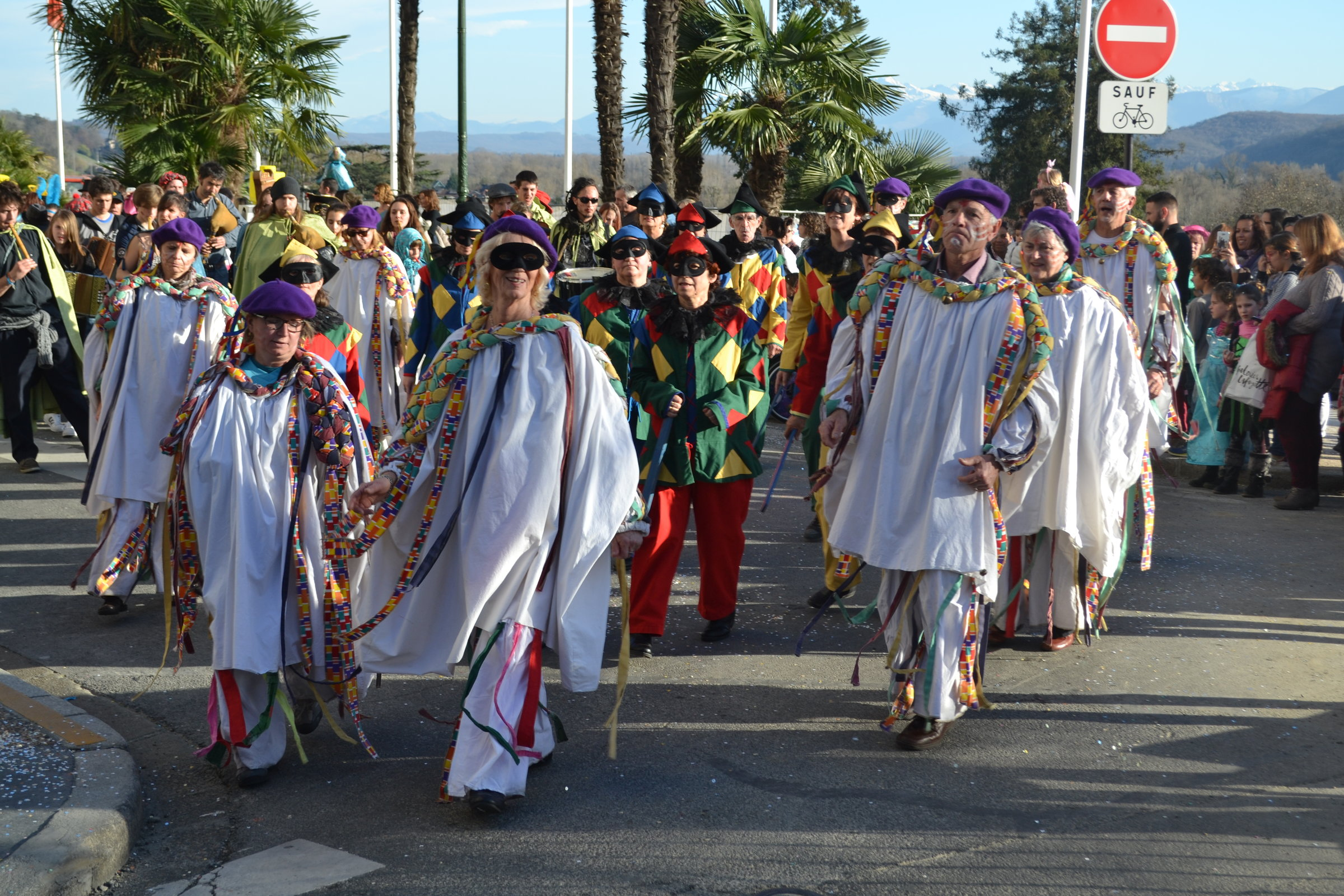 Dancers during the Big Parade of the Carnaval Biarnés 2016.